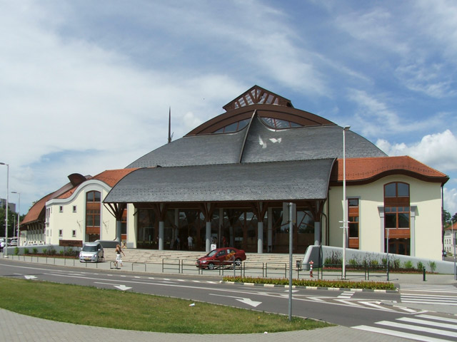 Aladar_Bitskey_Swimming_Pool_Eger_Hungary